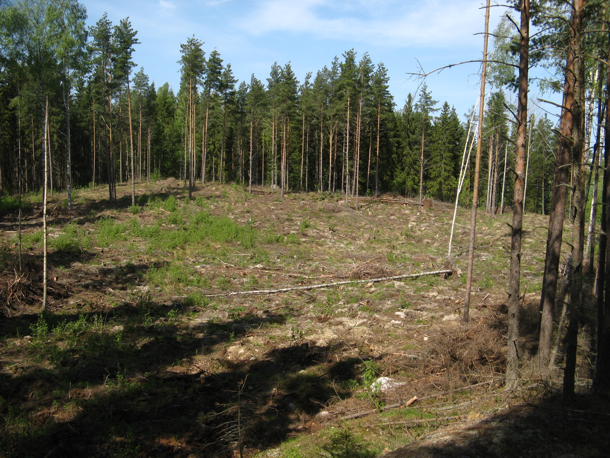 Minor clearcut in pine forest in Turku. The surface has been worked to ease renewal of the wood.